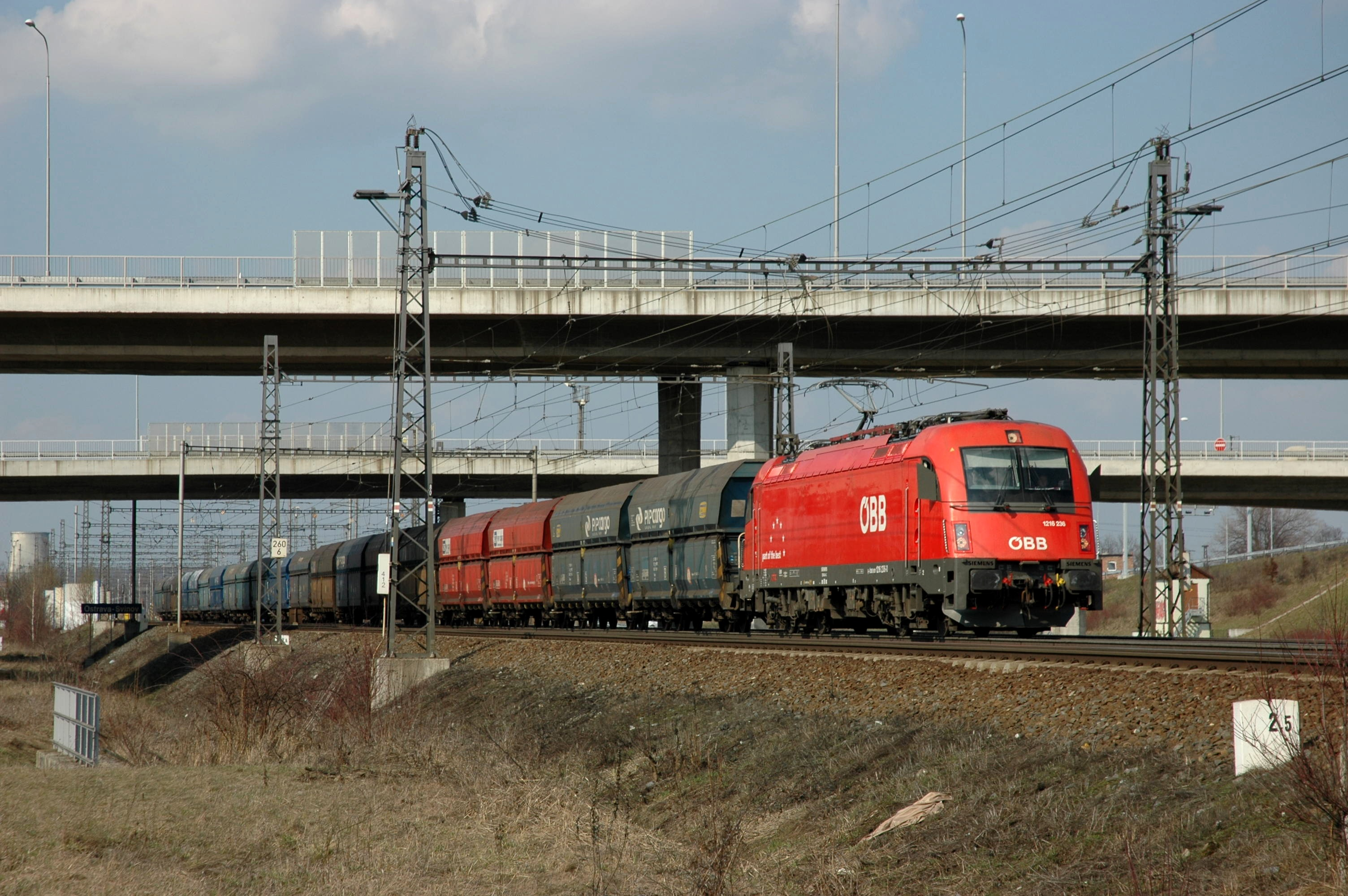 Locomotive 1216 236 of ÖBB with coal train from Poland to Austria operated by Rail Cargo Austria; Ostrava-Svinov station, Czech Republic